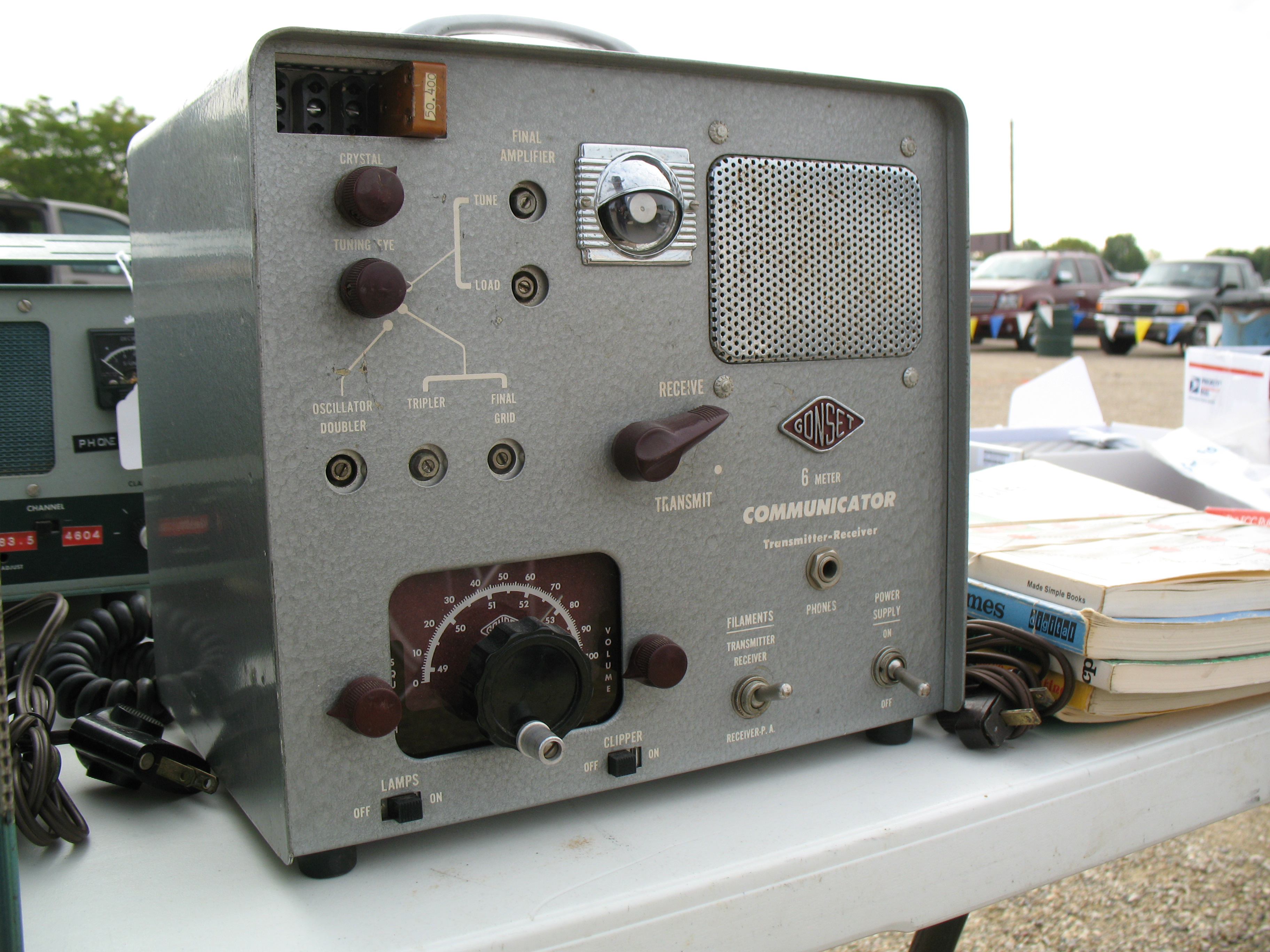 Gonset Communicator II, a popular vacuum tube VHF amateur radio transceiver introduced in the 1950s. They were commonly known as "Gooney Boxes." This unit operates on the 6-meter amateur band. Note the magic eye tube tuning indicator, top center. Photo taken at the at Peoria Superfest.